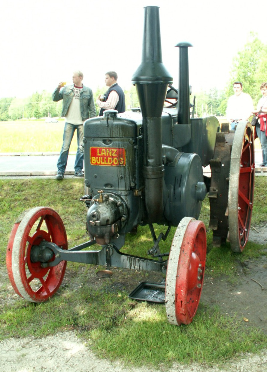 Lanz "Bulldog" D 9500 tractor, 45 horsepowers (1940)